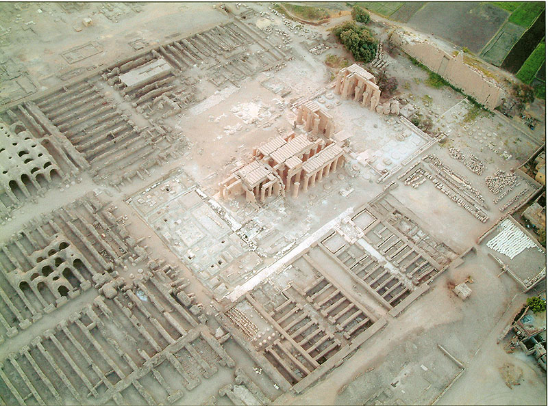 Aerial View of Thebes' Ramesseum. "The Ramesseum can be said to illustrate the traditional plan of an Egyptian temple : microcosmic evocation of creation and receptacle of gods' energy which was reinforced by daily worship. The originality of these mansions of millions of years resides, above all, in the association of the heavenly world and the earthly world, and in the exaltation and glorification of the royal function." --Guy Lecuyot, CNRS Paris